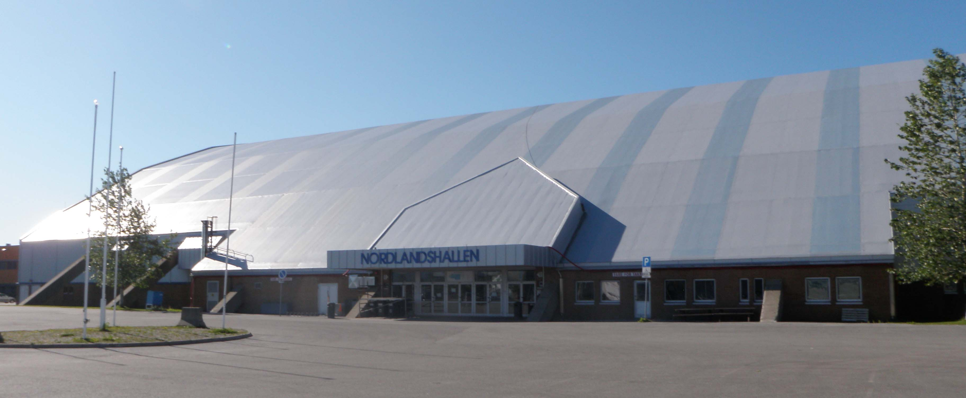 The football hall Nordlandshallen in Bodø, Nordland, Norway.